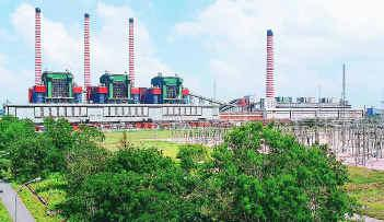 NTPC RAMAGUNDAM